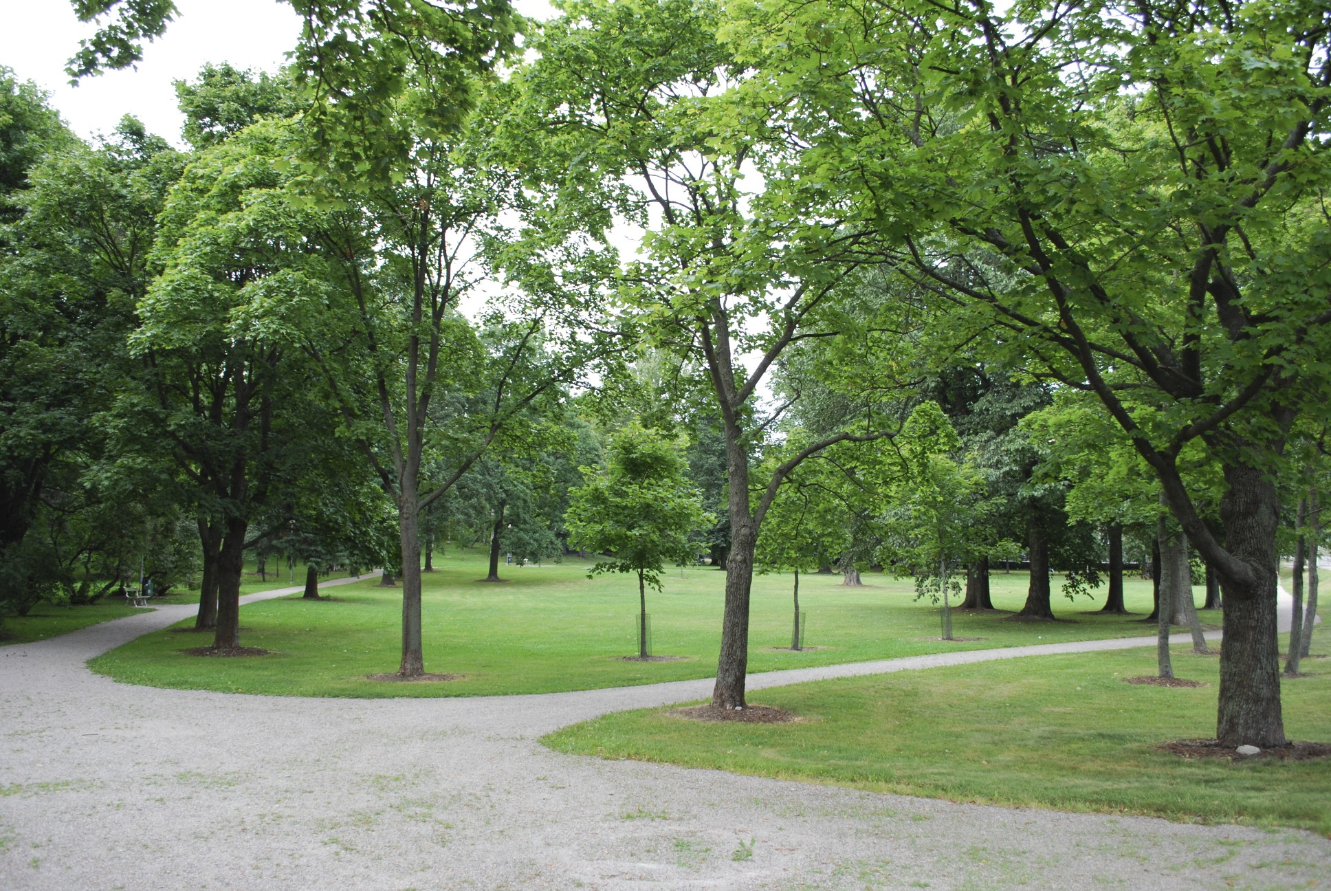 Kumtähden kenttä in Toukola in Helsinki.